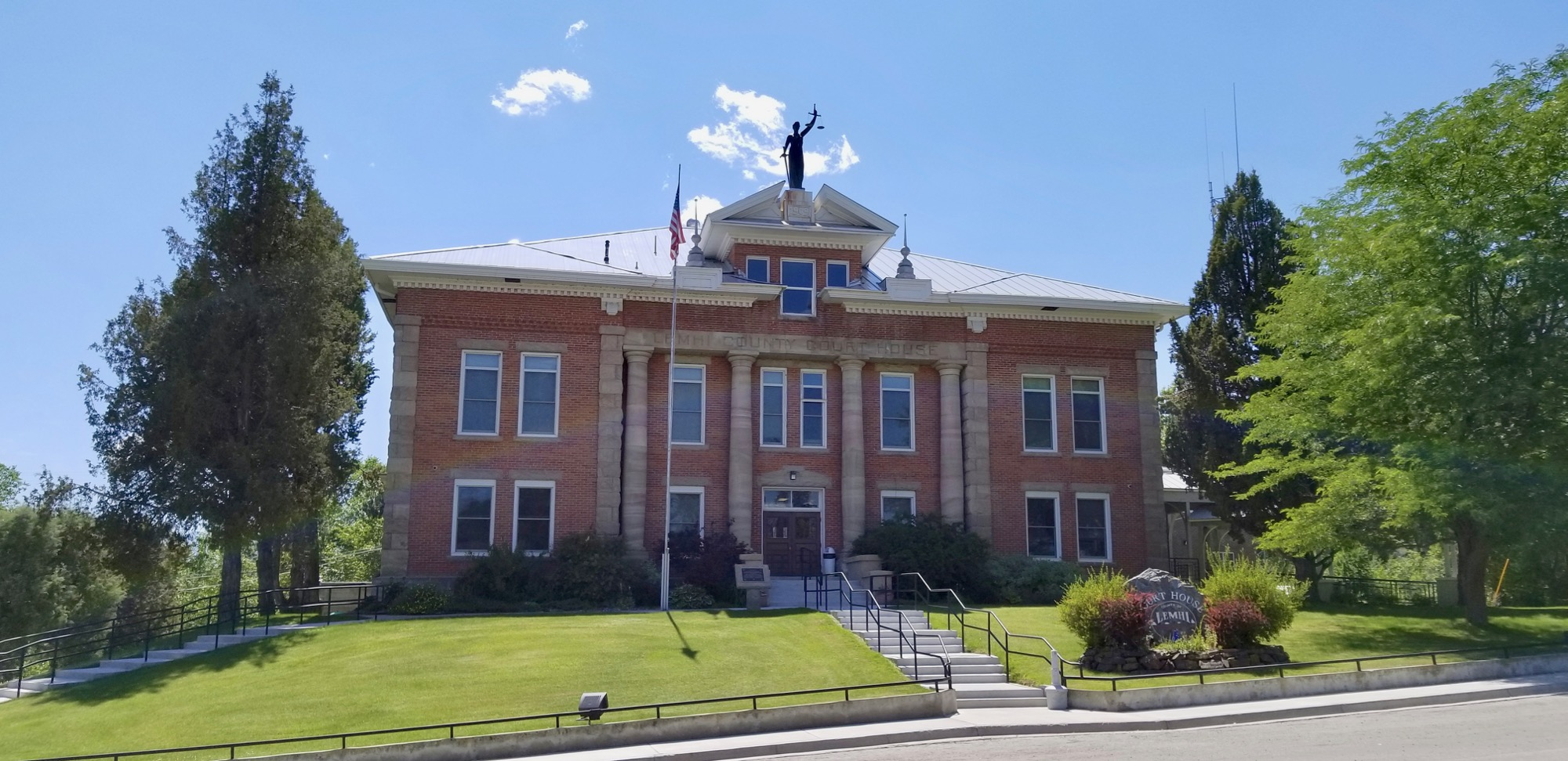 Lemhi County Courthouse in Salmon, Idaho, photo by John Stanton 16 Jul 2017